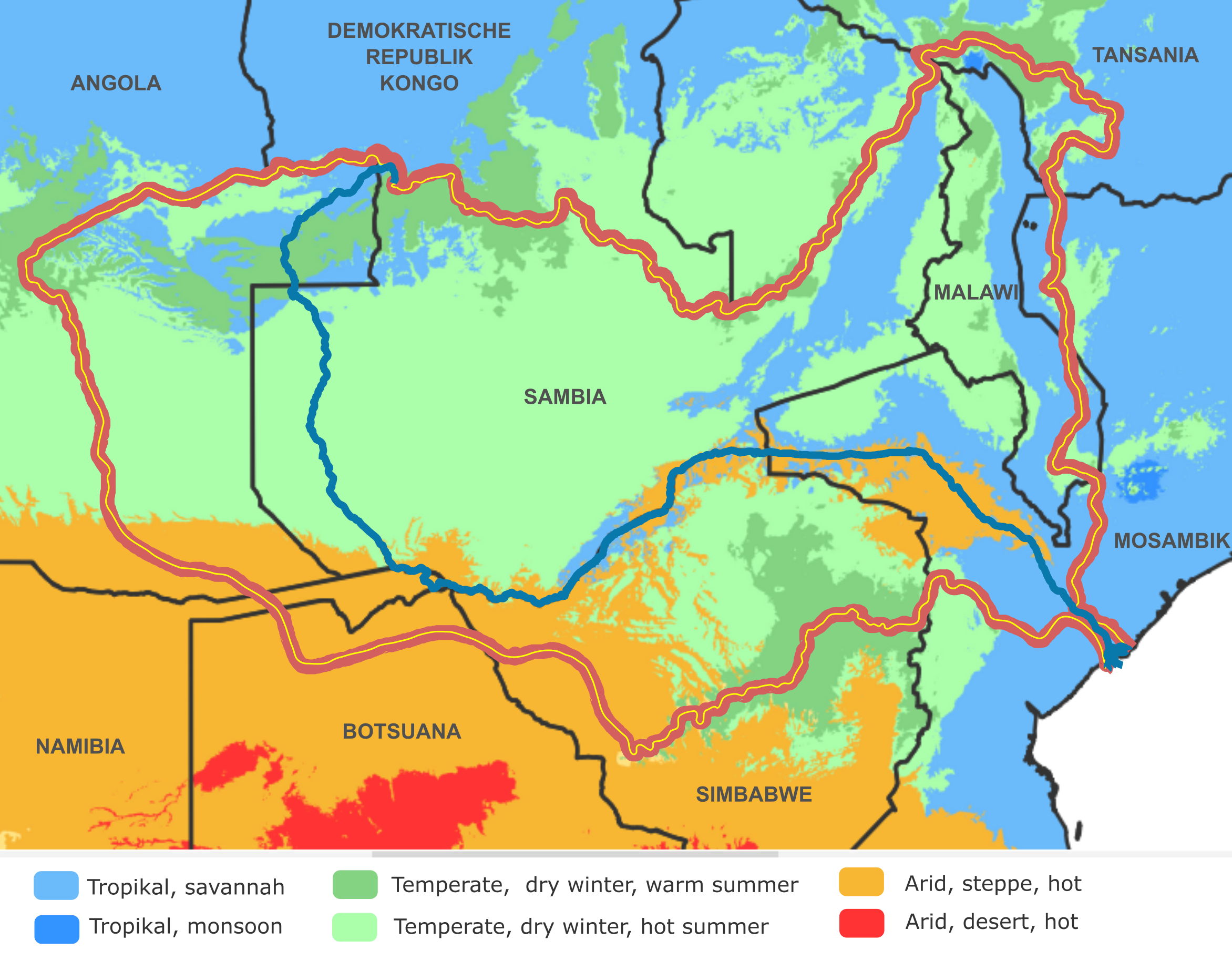 The Zambezi basin overlaid with Köppen-Geiger climate classification.